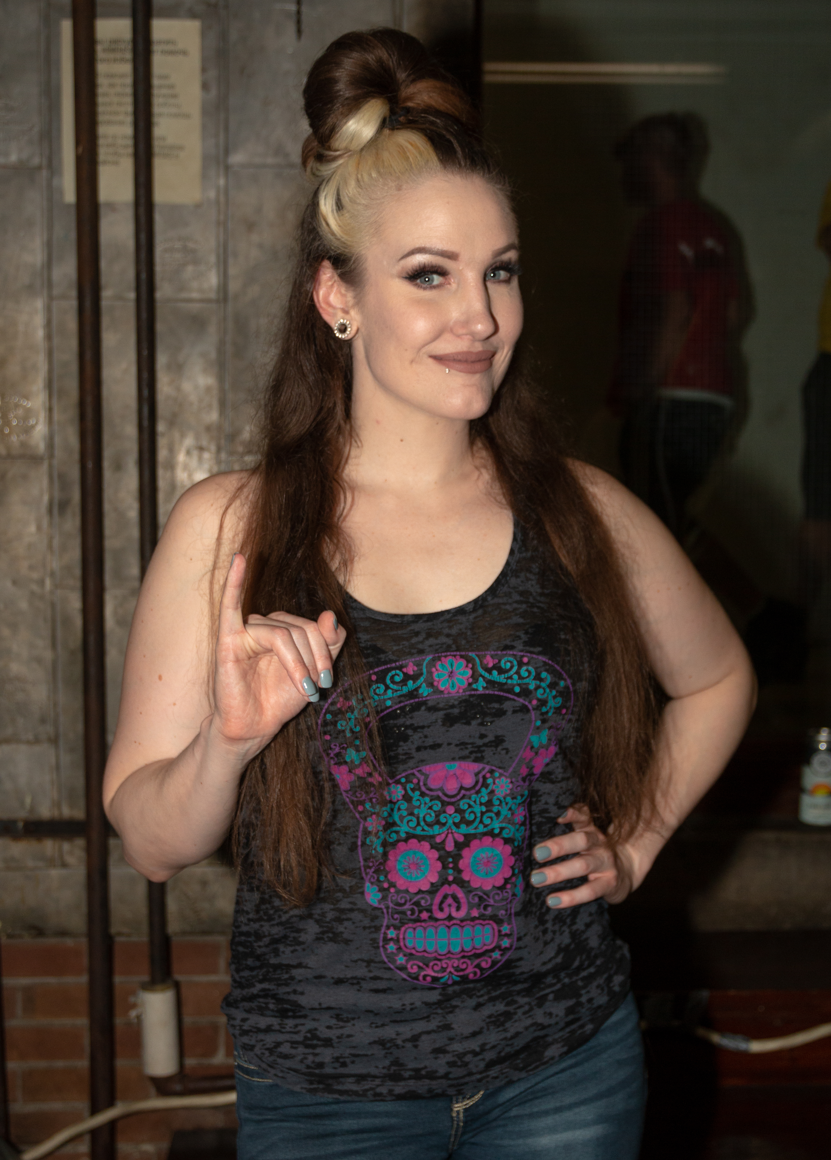 Professional wrestler Sienna posing at intermission during an event for Greektown Wrestling in Toronto, ON